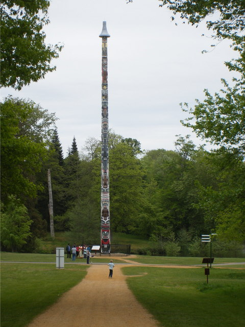 Totem pole at Virginia Water The totem pole is situated at the northern end of Virginia Water lake in Windsor Great Park